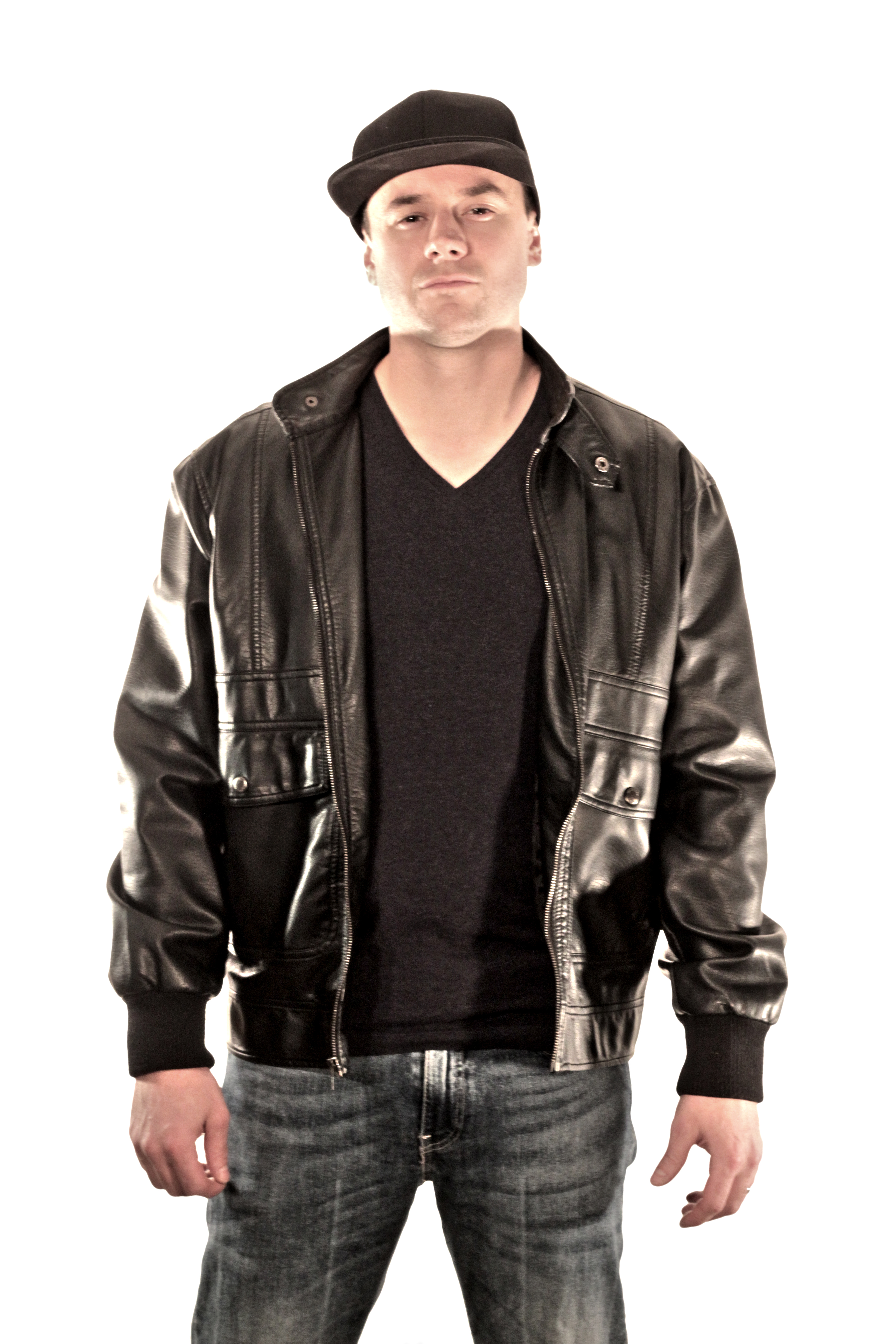 Christopher Atwell